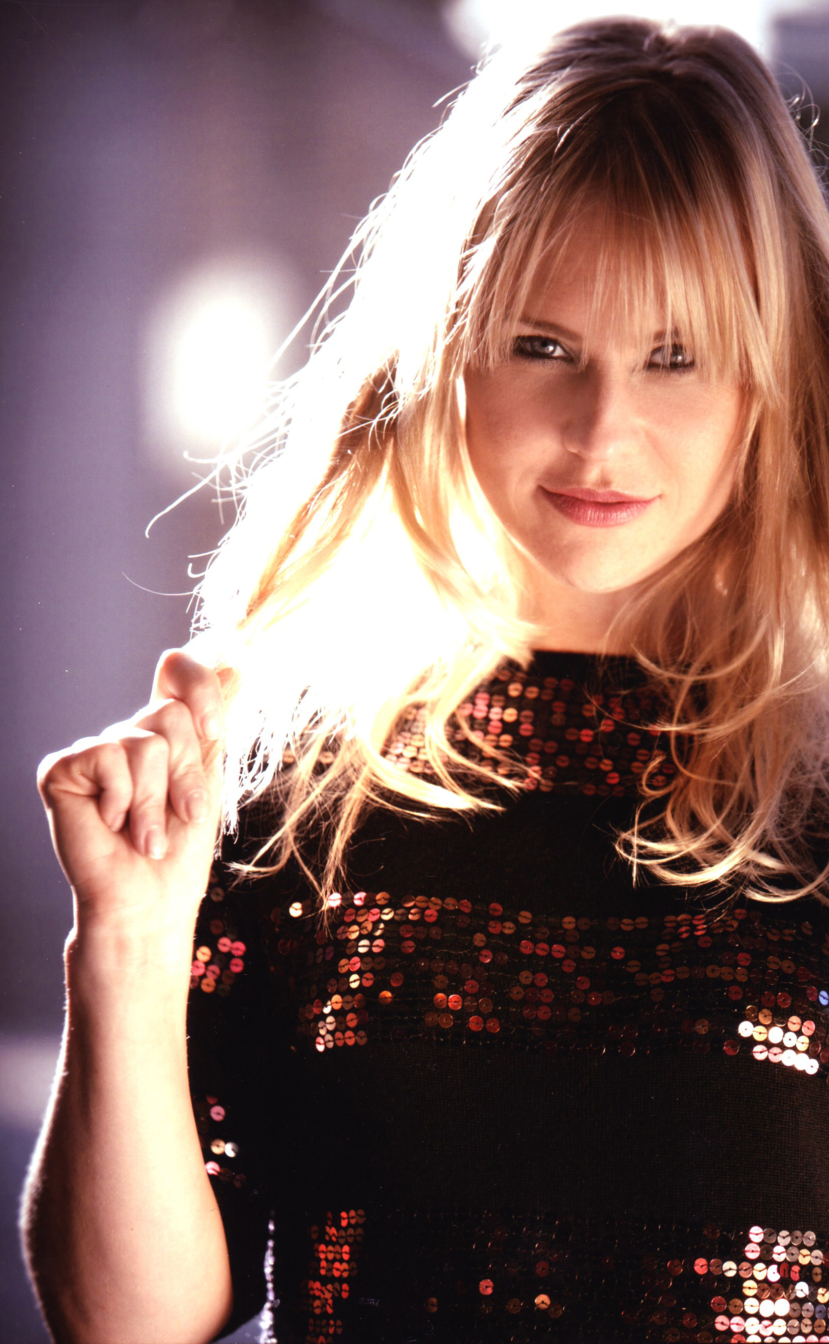 Kristin Booth in a publicity shoot in 2008.